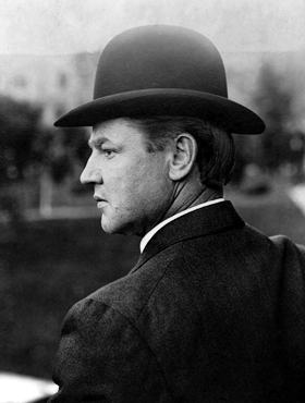 Wikipedia:Bill Haywood, early 20th century labor organizer, IWW leader